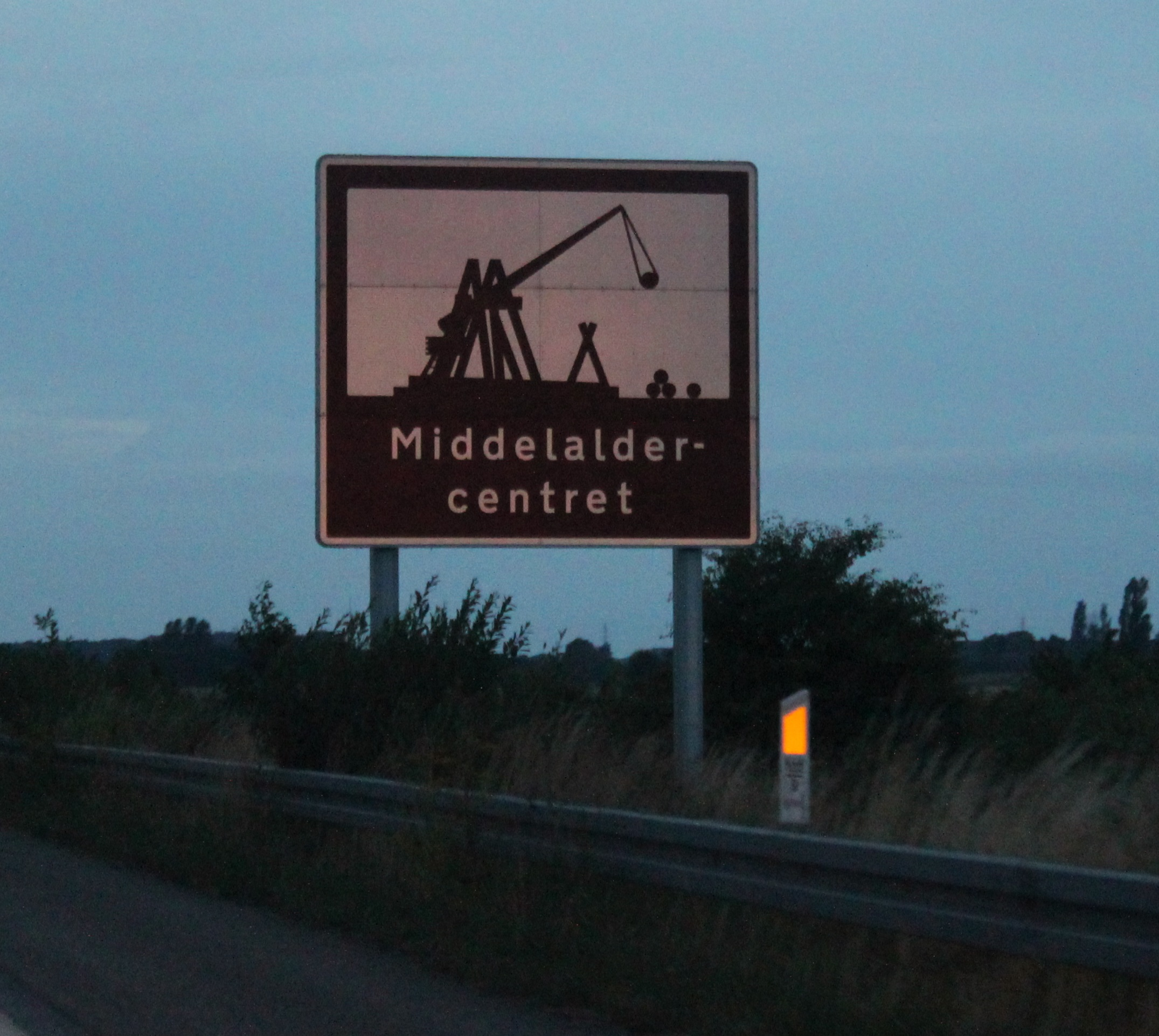 Sign on the highway indicating that Middelaldercentret is at the junction